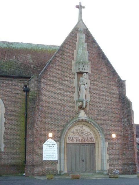 North porch of St Augustine's parish church, Bexhill-on-Sea, East Sussex